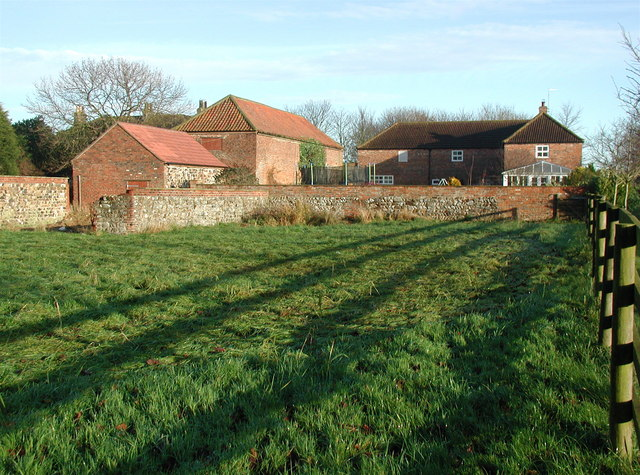 White House Farm, Rimswell, East Riding of Yorkshire, England.Looking northeast from Church Road.